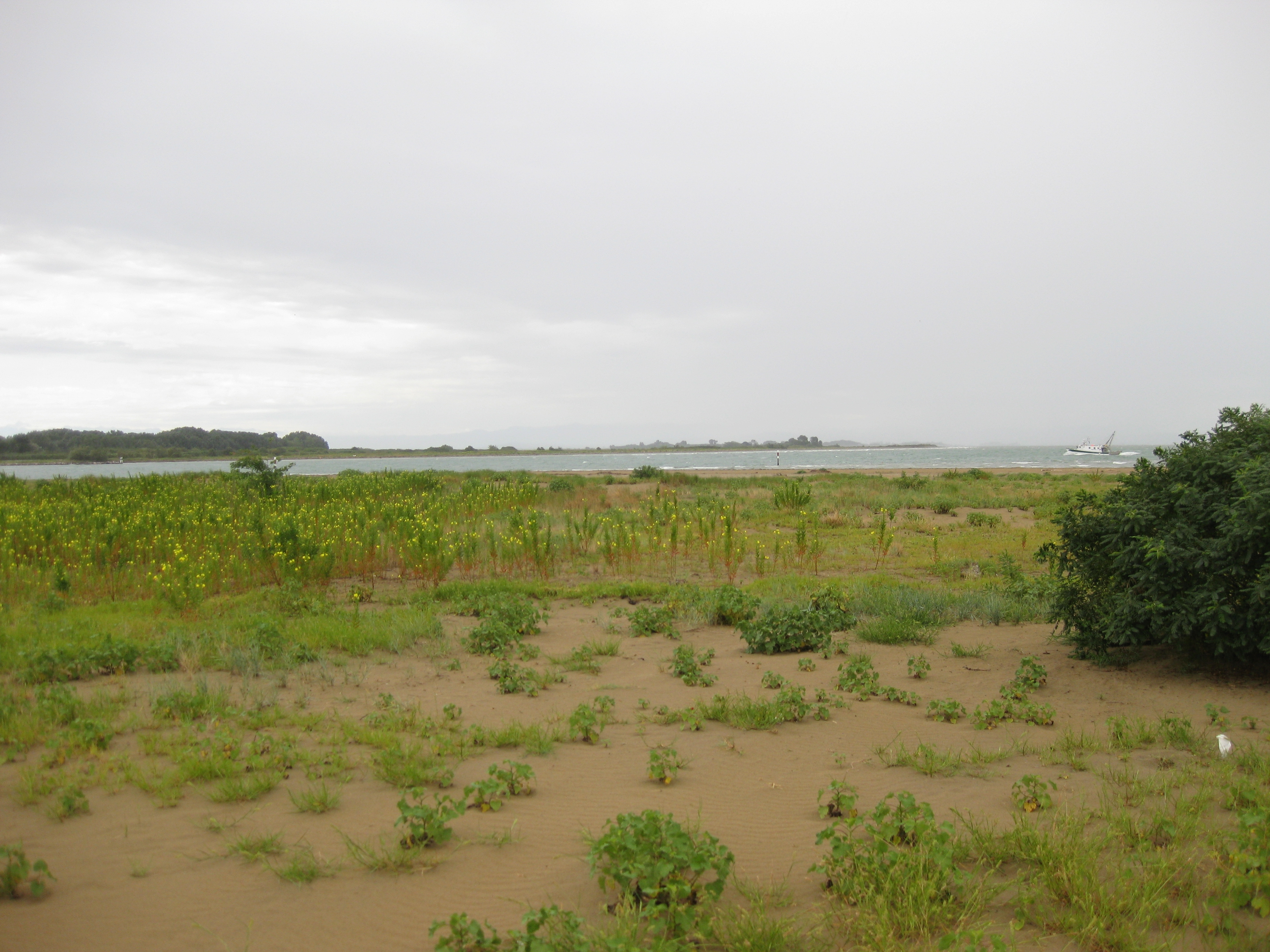 The Dock LIGNANO SABBIADORO